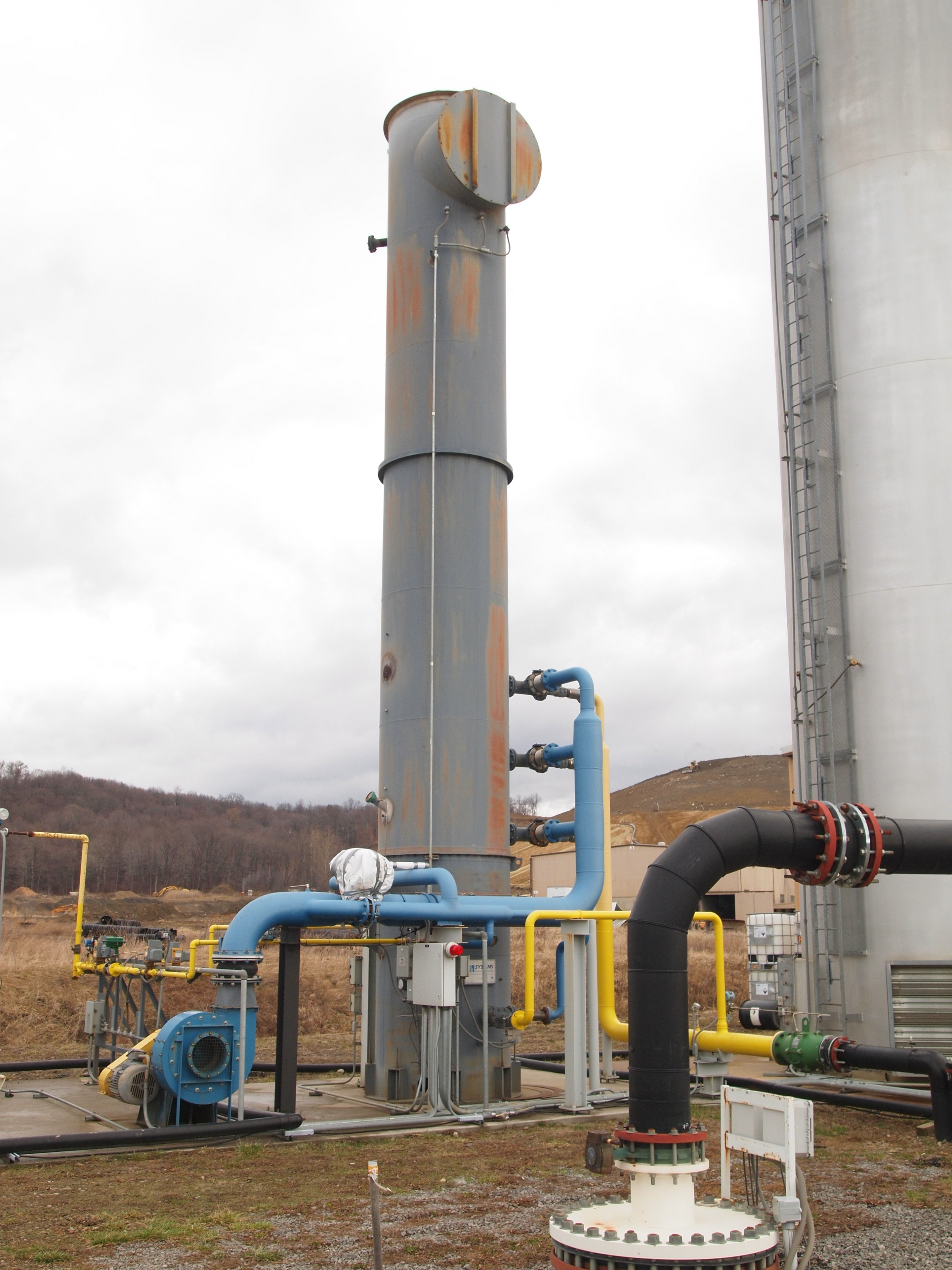 Basic thermal oxidizer (direct fired) using landfill gas as fuel to heat and oxidize the waste gas as a result of landfill gas processing to separate methane to supply a gas line.